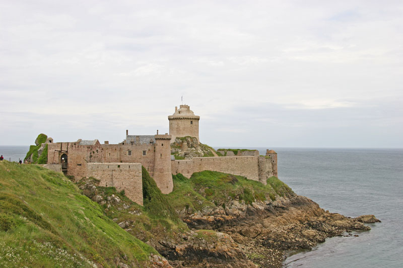 Fort-la-Latte Author: Kimon Berlin